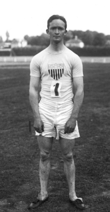 Picture of James Rector